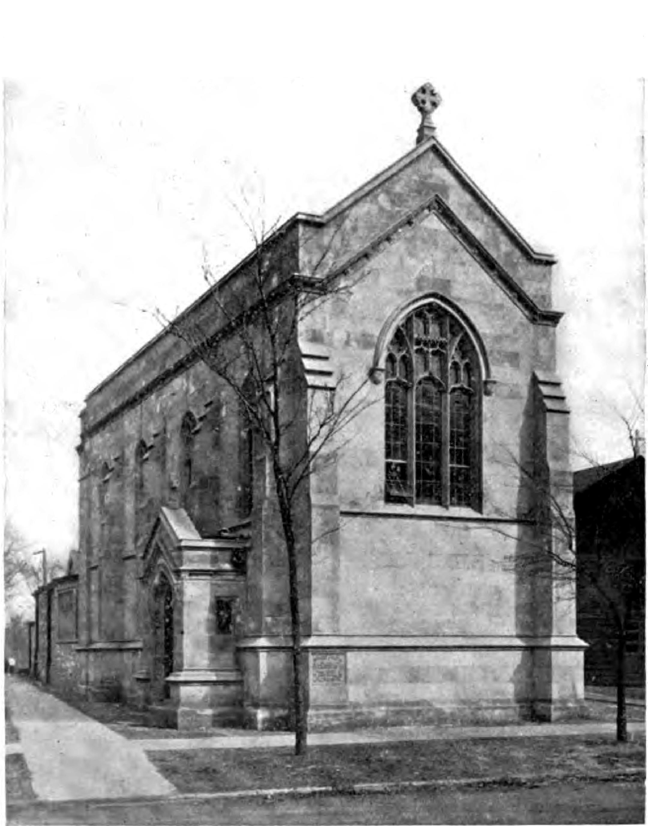 St. Luke's Chapel in Evanston, Illinois